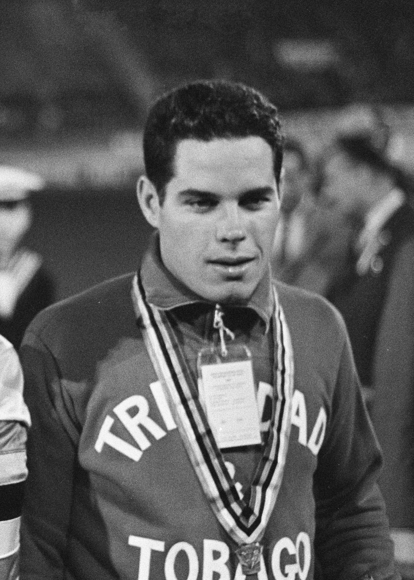 WK Wielrennen te Amsterdam. Gibbon (Trinidad)